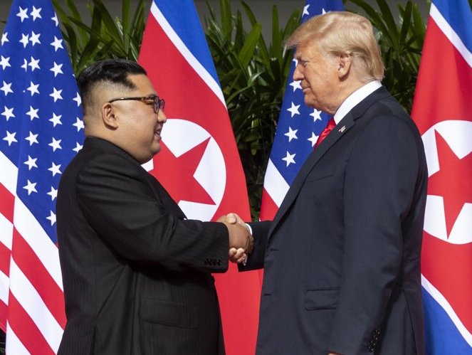 Kim and Trump shaking hands at the red carpet during the DPRK–USA Singapore Summit